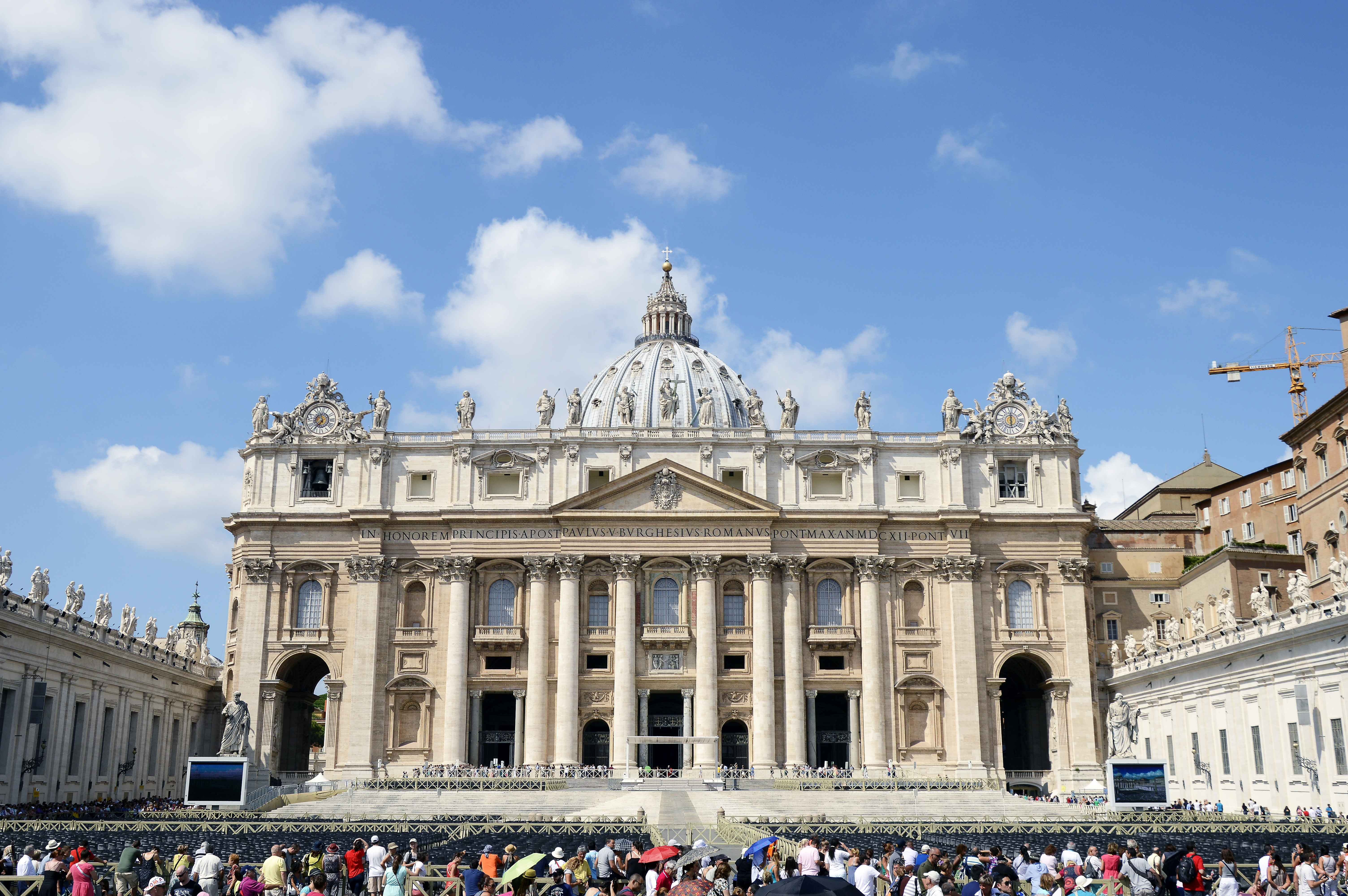 Saint Peter's Basilica